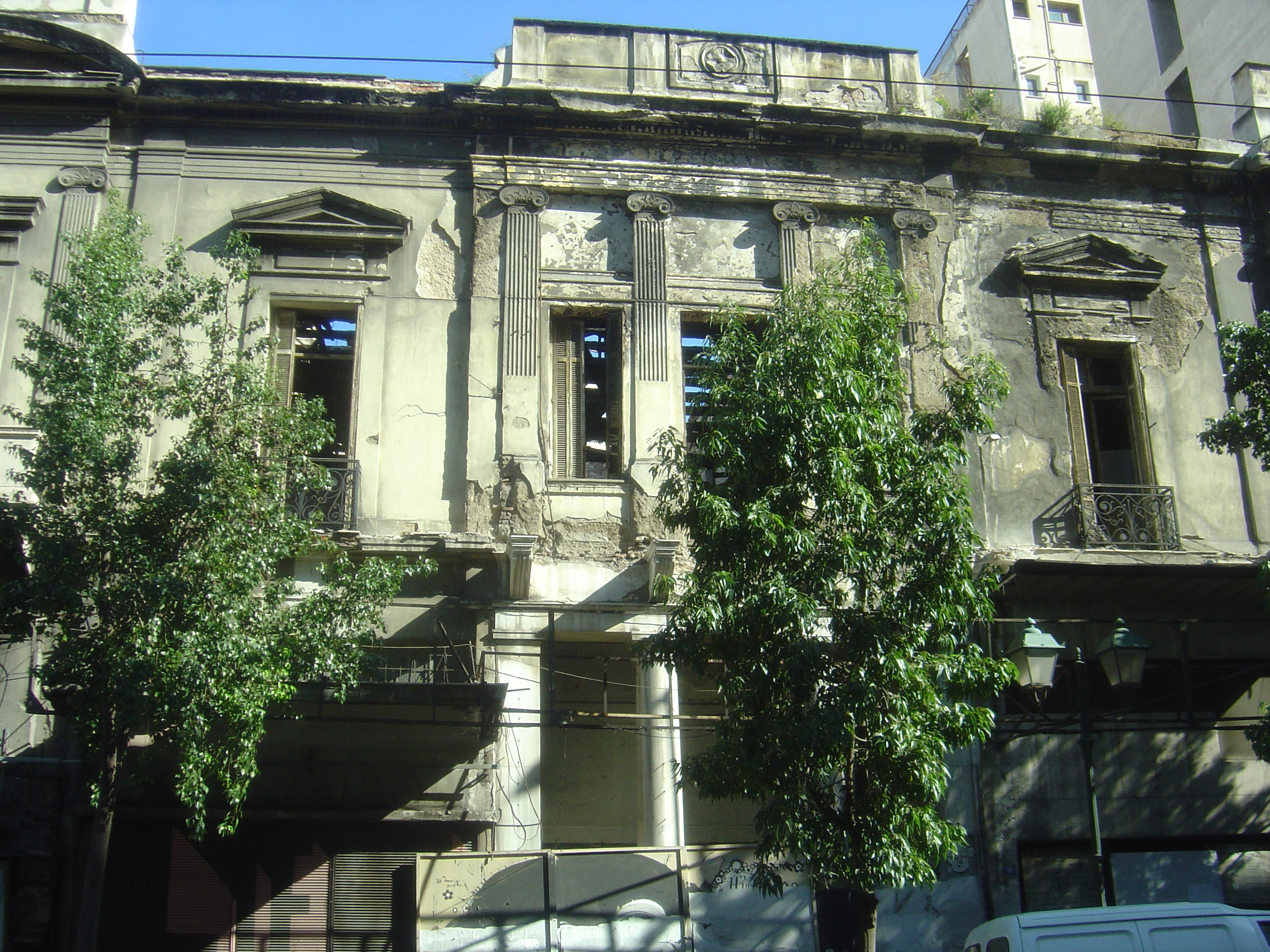 Athinogenis Mansion in Athens, Greece